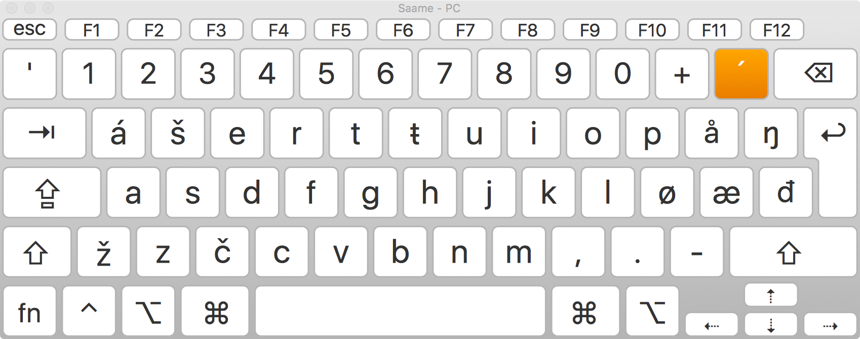 Keyboard layout for Northern Sámi, distributed as part of Mac OSX